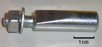 A cropped version of File:Keil_für_Tretlager.jpg, with a different scale indicator and a slightly blurred-out background.